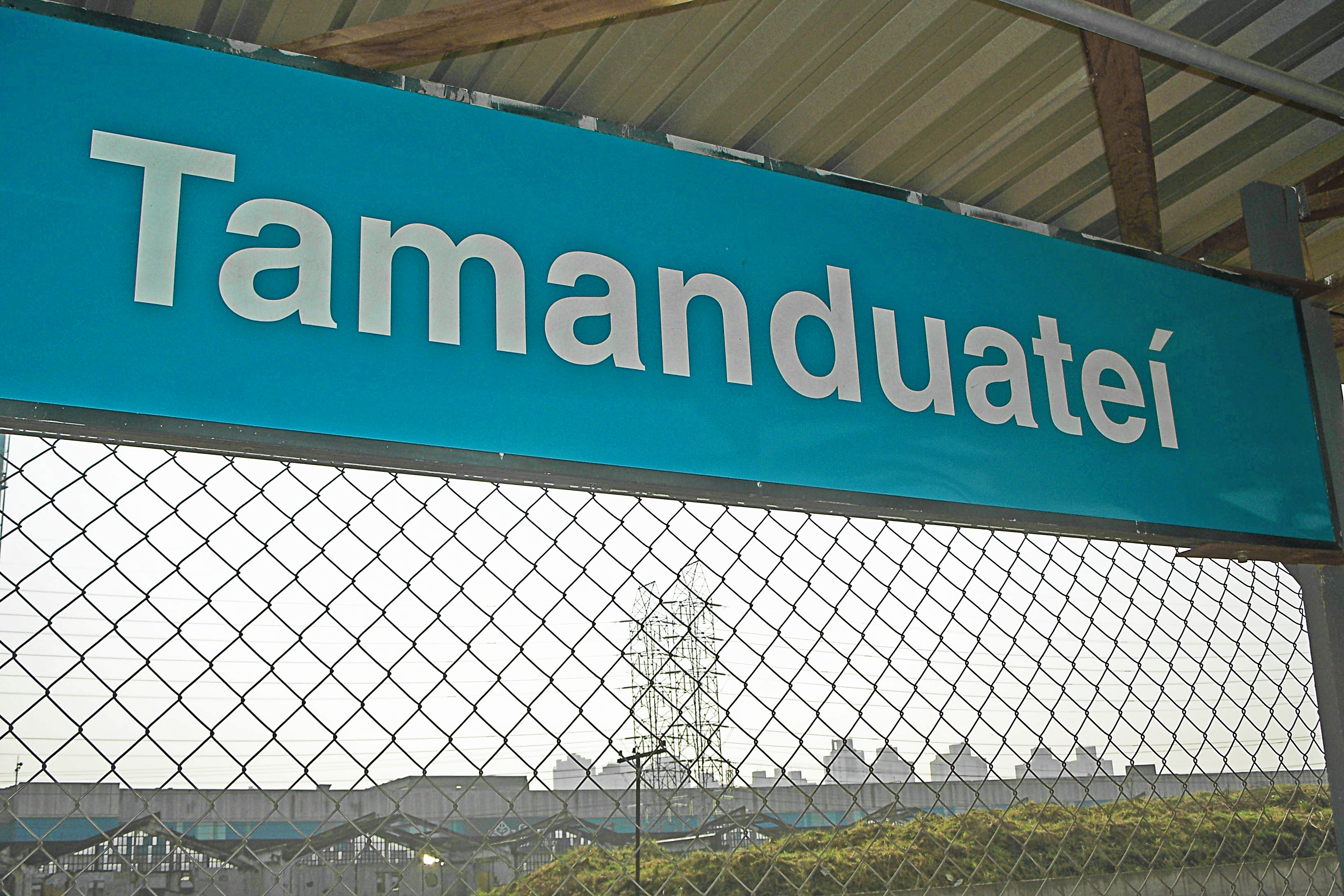 Signal at Tamanduateí station, in São Paulo, Brazil.